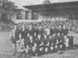 Newell's Old Boys - Gira Europea 1949/1950